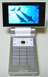 Vodafone 905SH by Sharp.